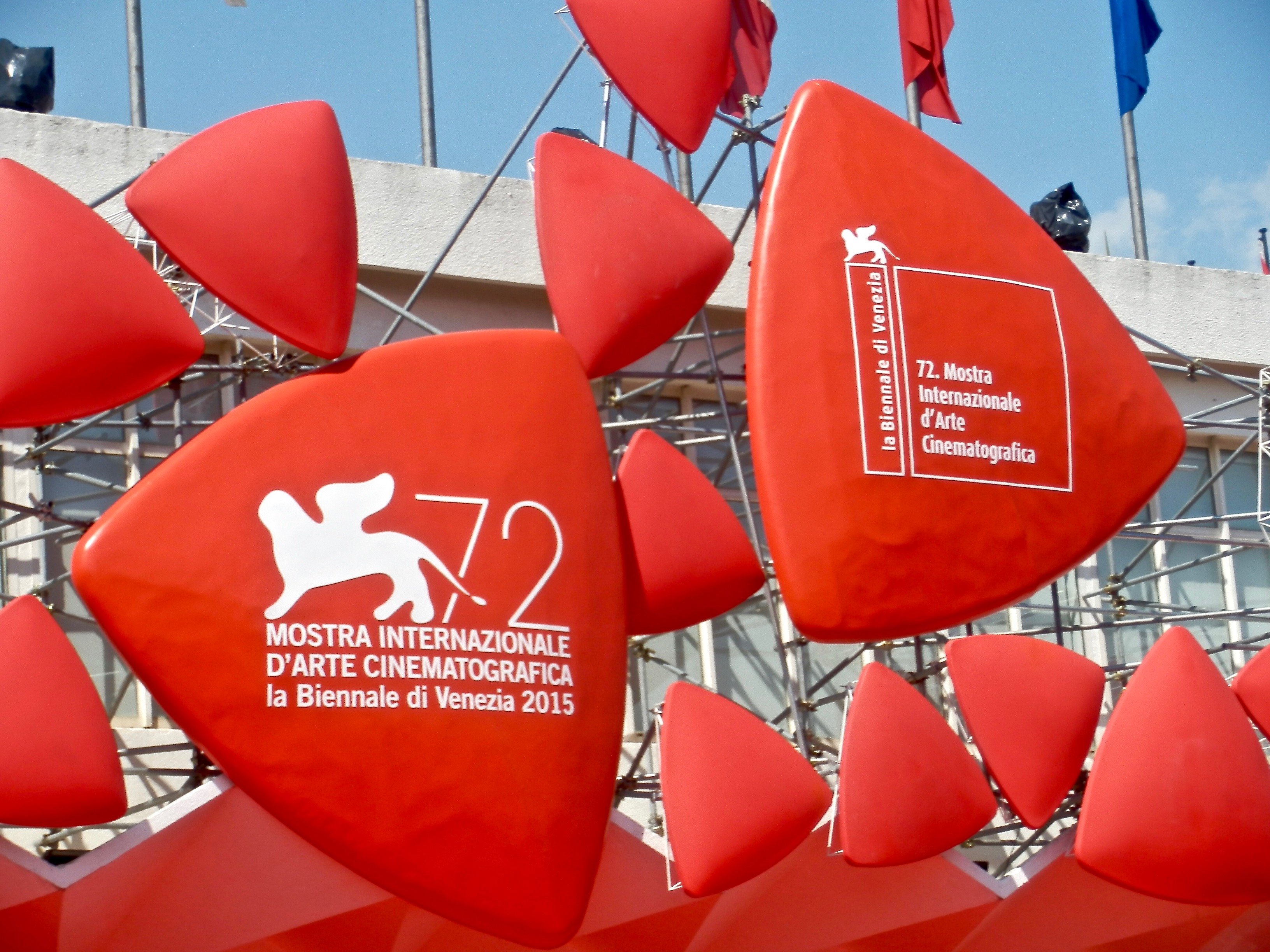 72nd Venice International Film Festival Official Logo